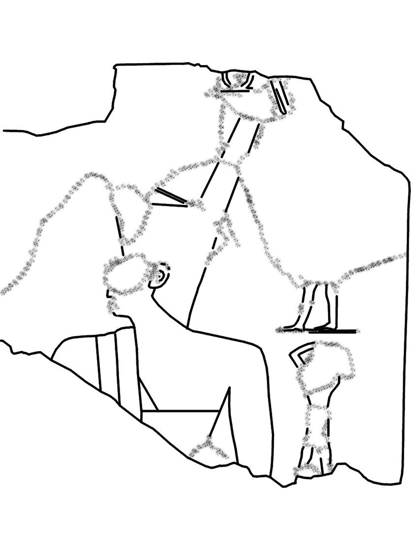 Weathered block with figure of Khufu in relief from his funerary temple at giza, excavated by George Andrew Reisner